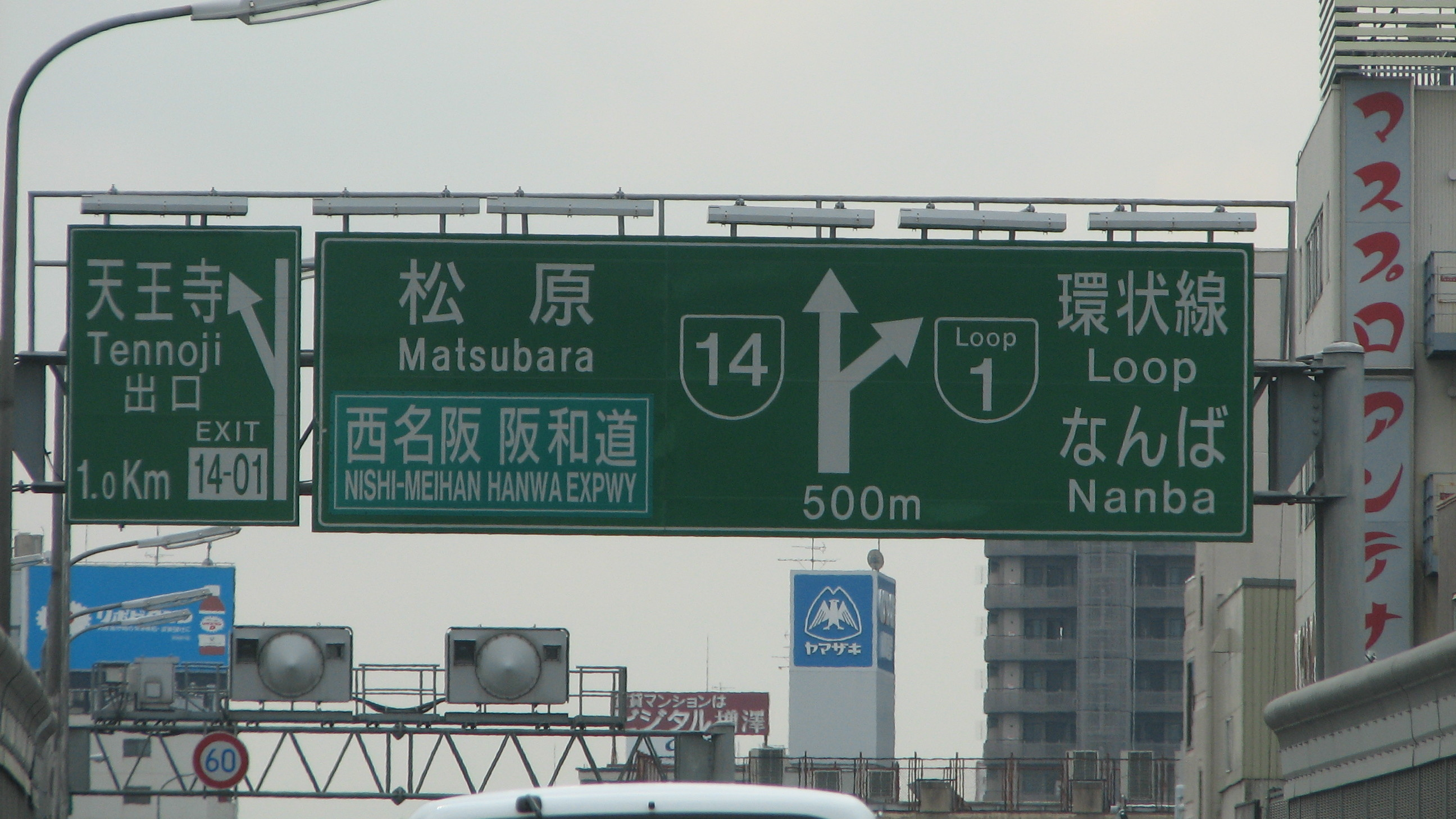 Hanshin Expressway Kōen-kita JCT